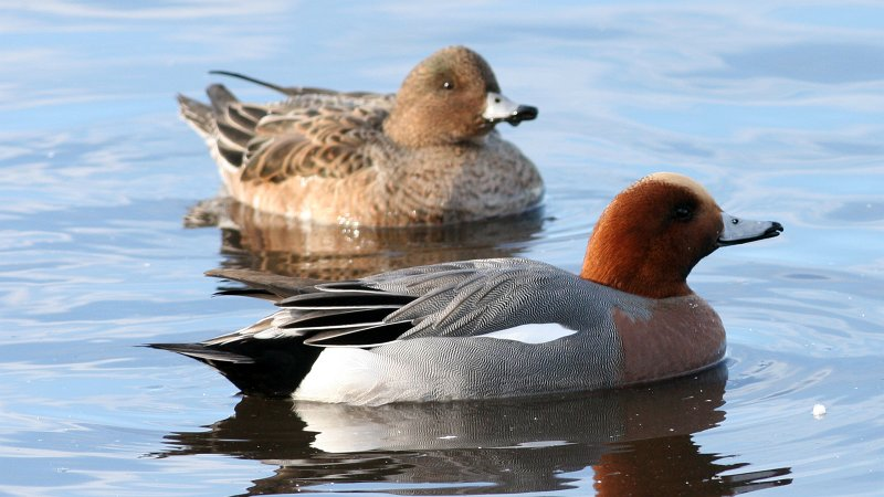 Wigeon (Anas penelope) This image was created by Ken Billington. If you are interested in a high resolution copy of this image, please contact the author Ken Billington in order to negotiate conditions of use. Do not copy this image illegally by ignoring the terms of the license below, as it is not in the public domain. If you would like special permission to use, license, or purchase the image please contact me to negotiate terms. More free images can be found on Ken Billington's Bird & Wildlife Photography.